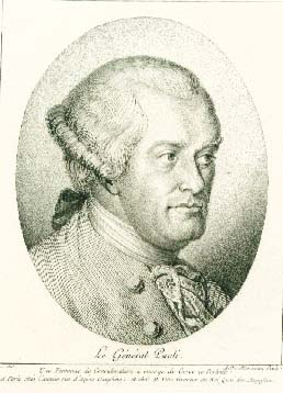 Portrait of Pascal Paoli (1725-1807) by French printmaker Antoine de Marcenay de Ghuy